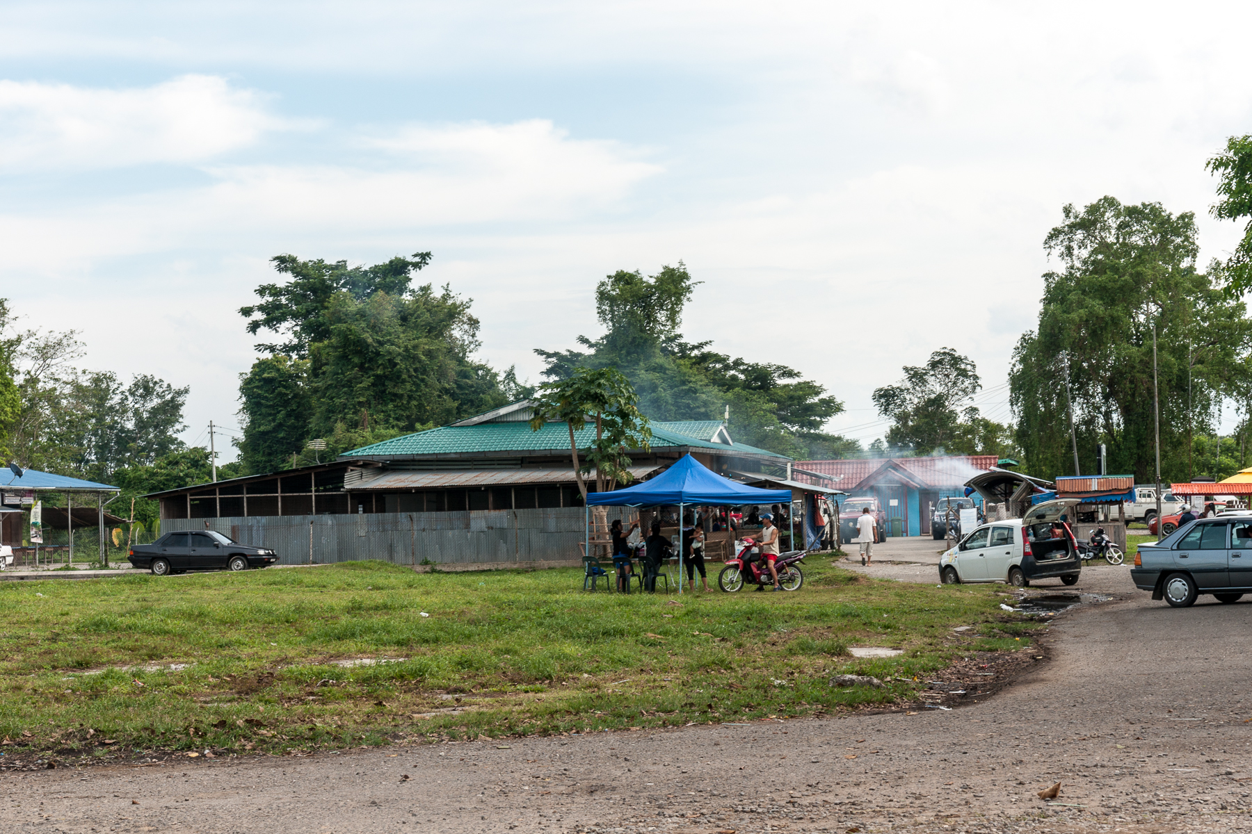 Bingkor, Sabah: Market Place